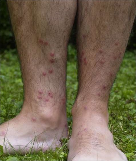 An eruption of cercarial dermatitis on the lower legs after having spent a day getting in and out of canoes in the shallows of a lake.